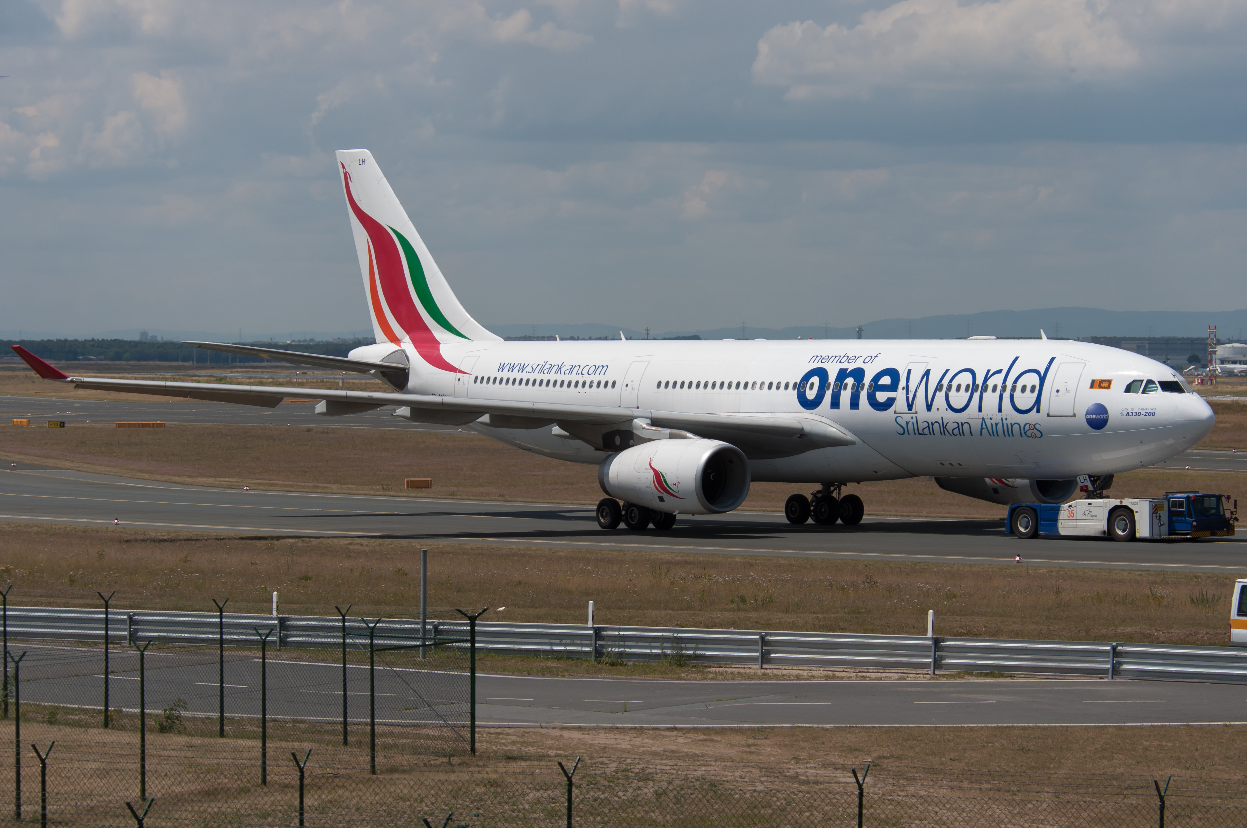 Frankfurt, July 2014